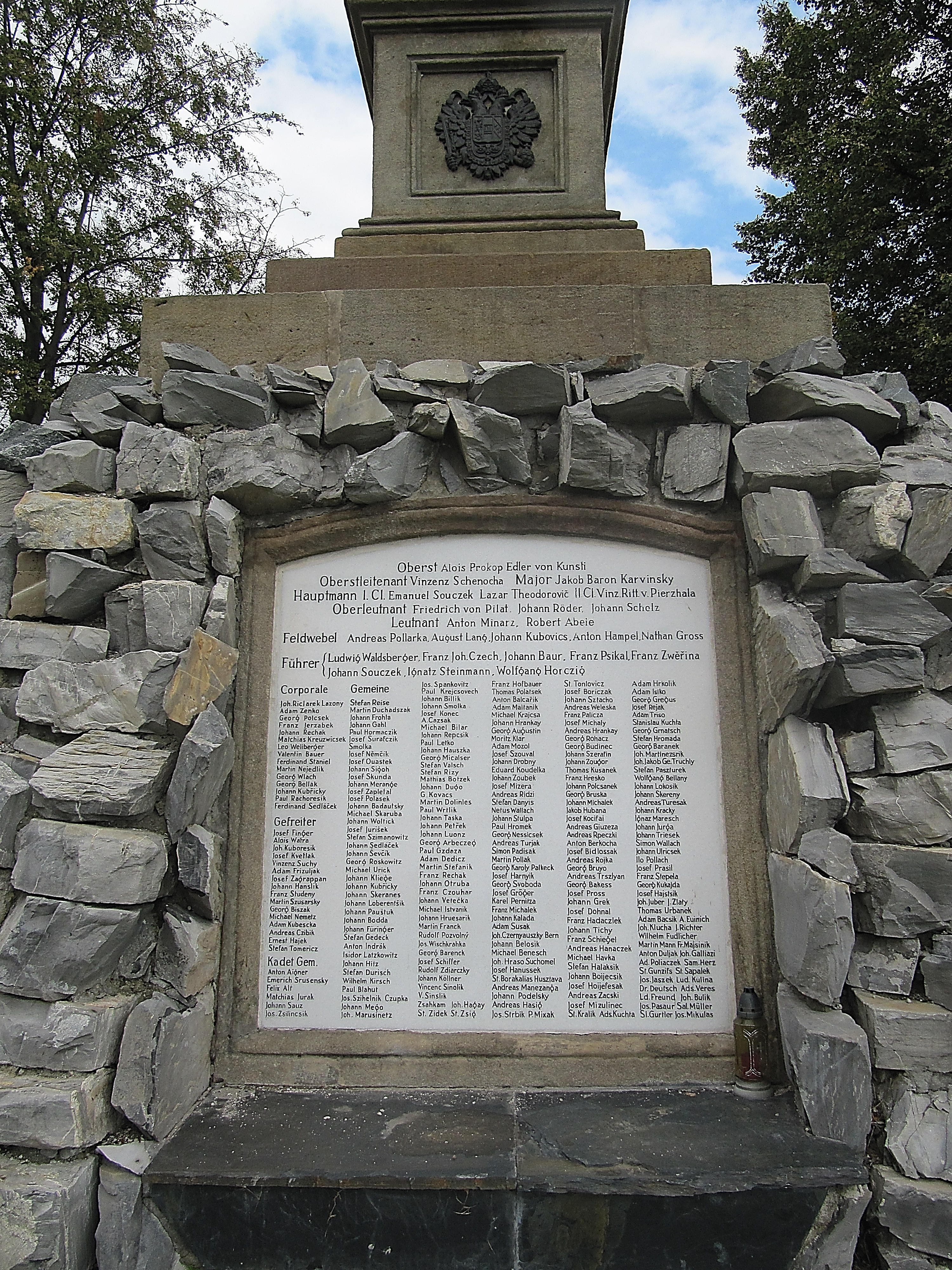 Tovačov, Přerov District, Czech Republic. Battlefield of the Austro-Prussian War of 1866. The central monument on the road to Olomouc.